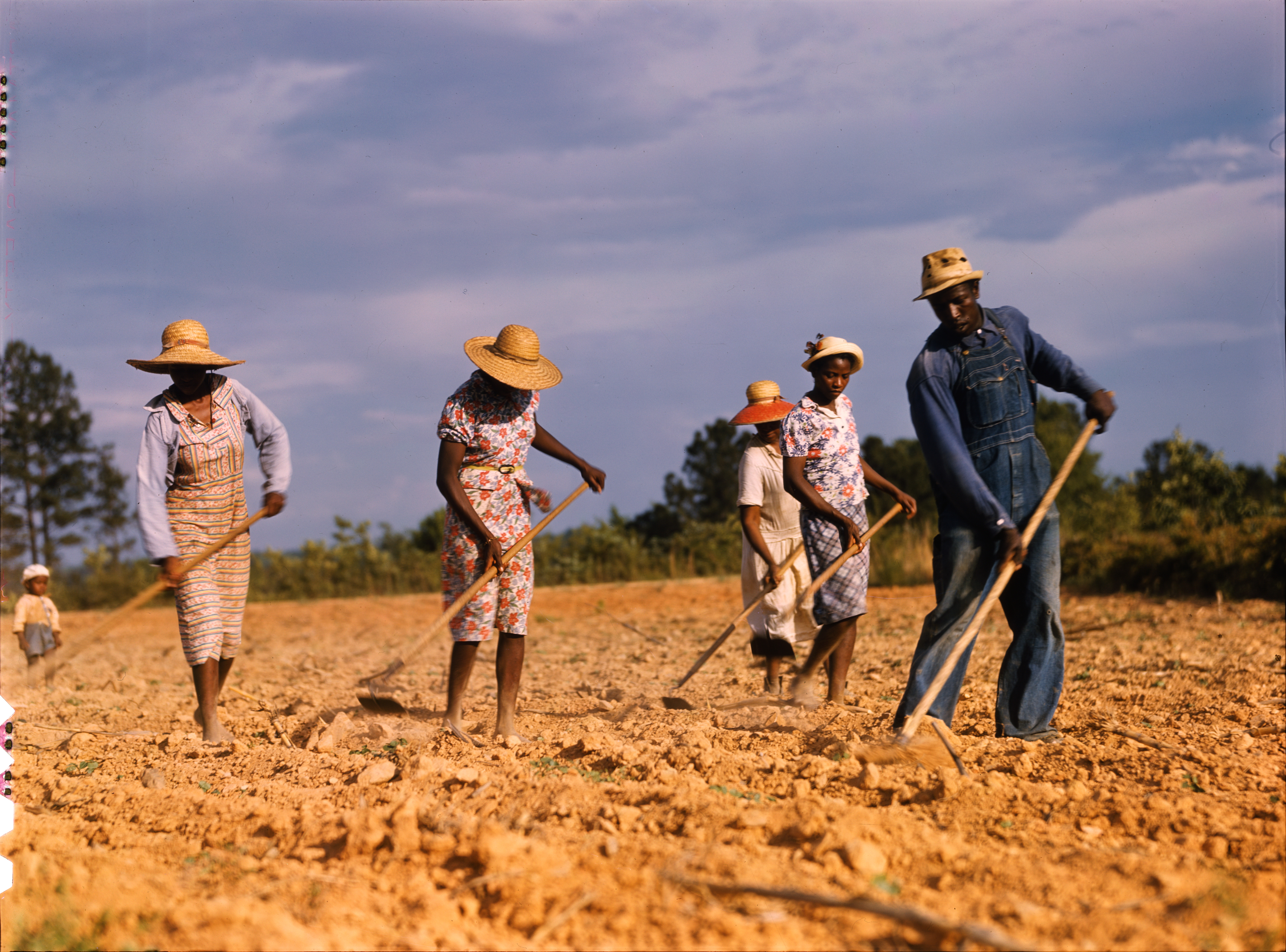 Farm Security Administration photo: chopping cotton Greene County Georgia 1941